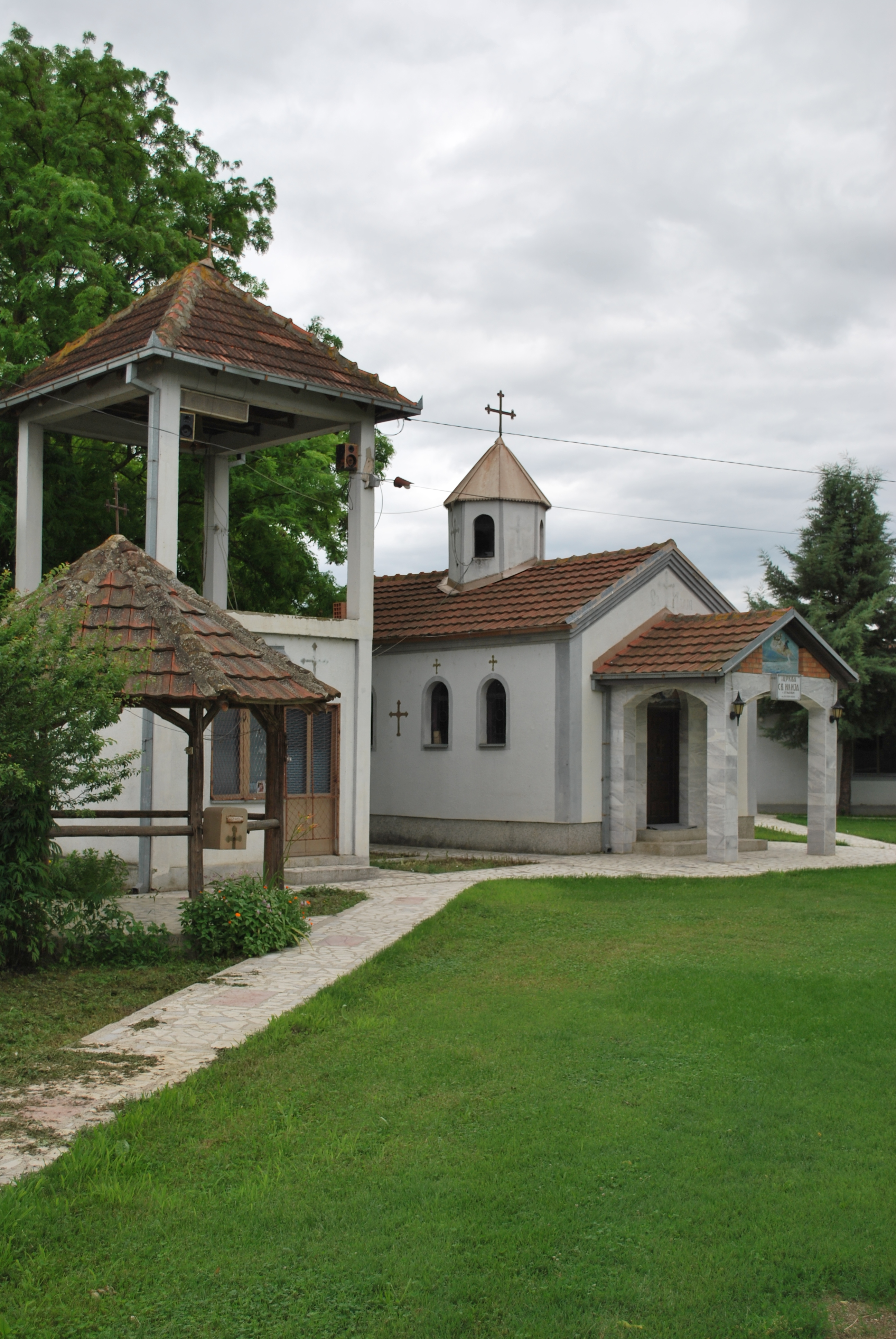 St. Elijah Church in Ognjanci, Macedonia